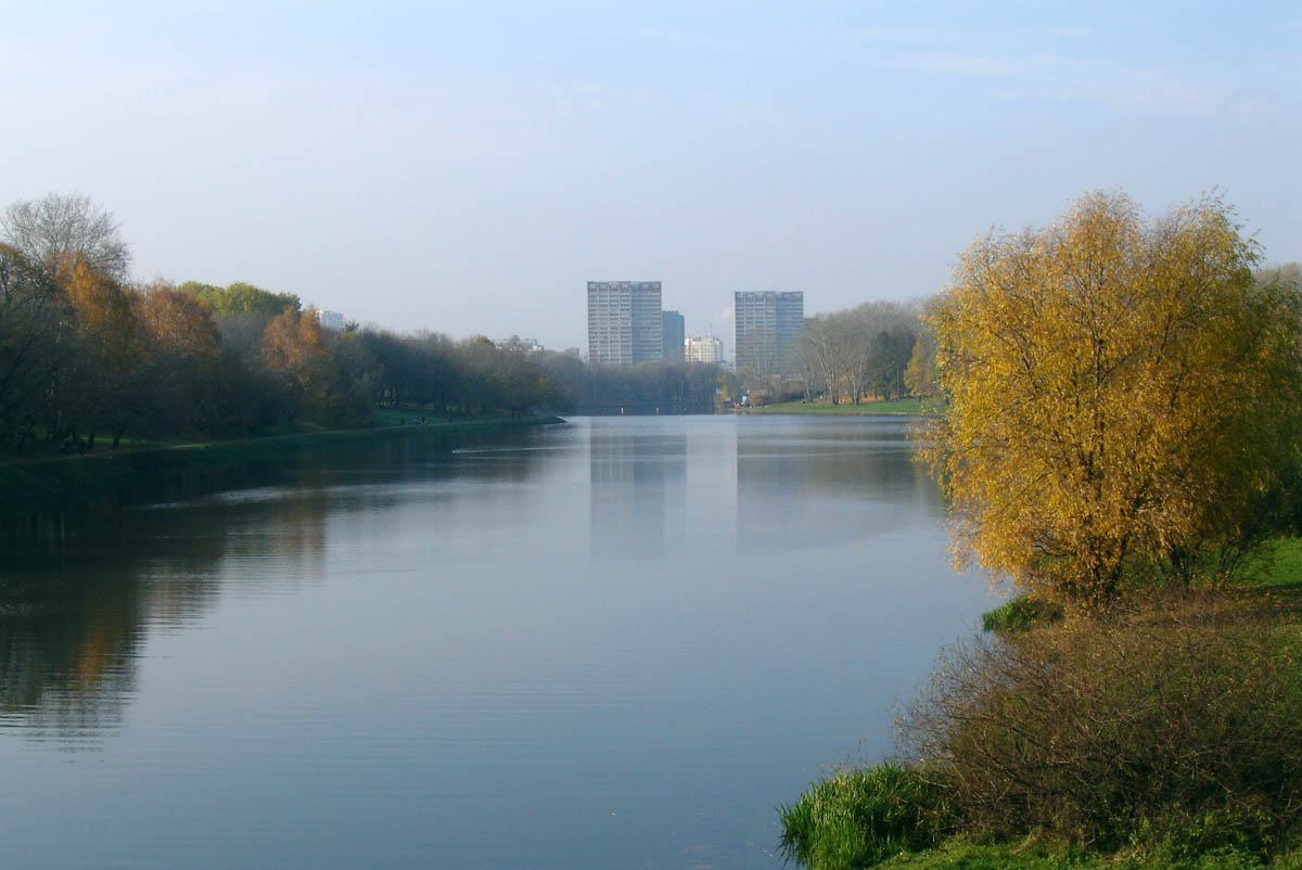 Lyublino park (left) and pond